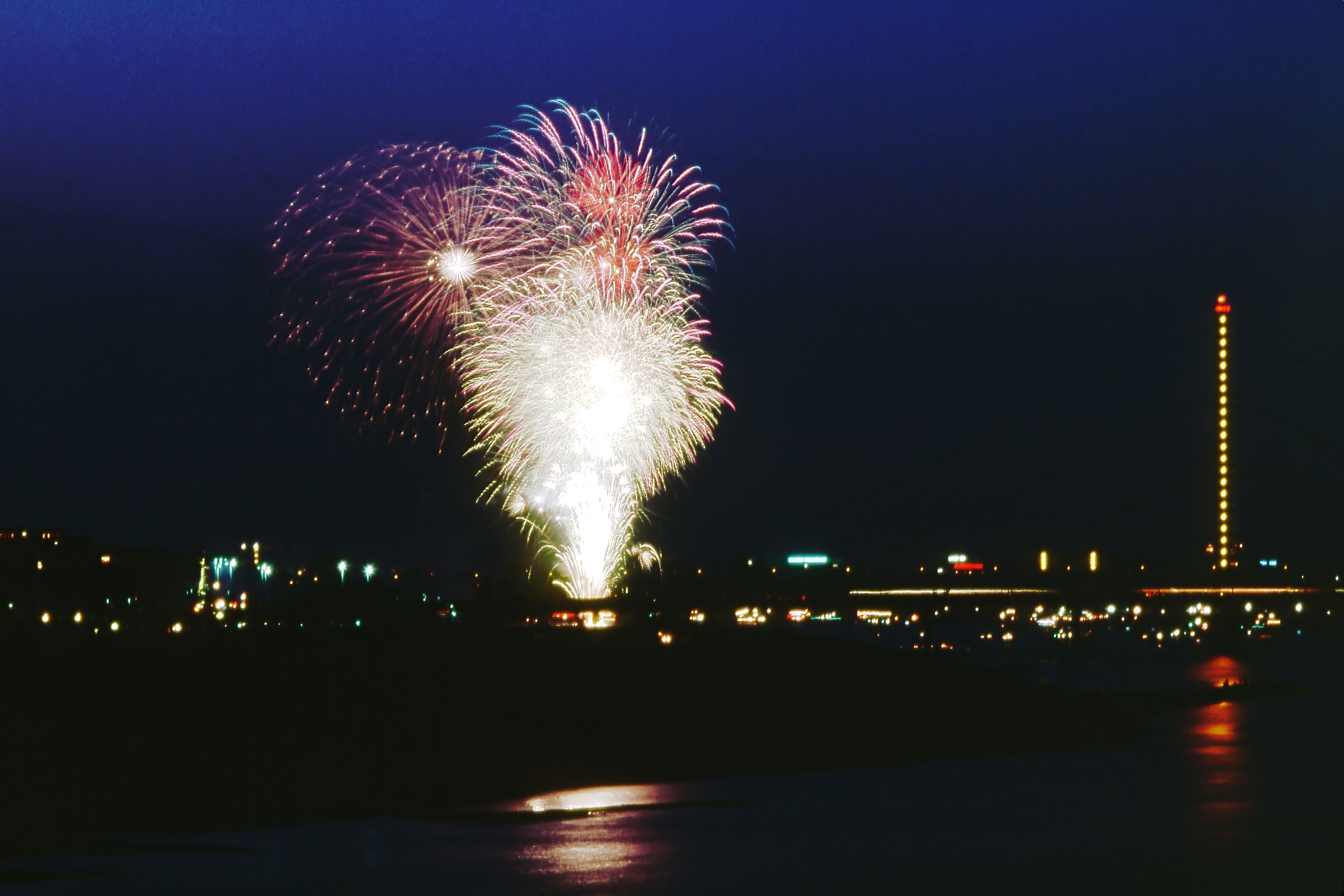 The great fireworks pictured during the first ever "Japan-Woche" in Düsseldorf, Germany, on the evening of June 18 1983.